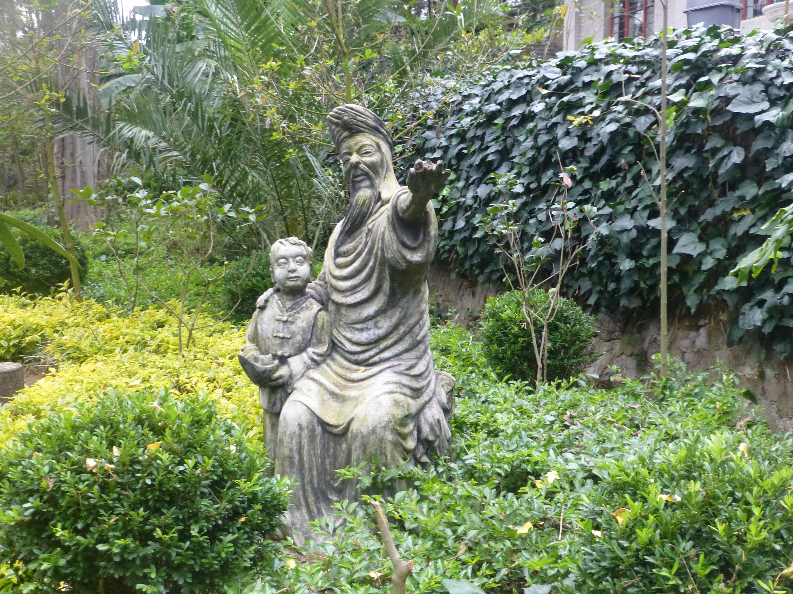 Zheng He Park on the Moon Mountain (Yue Shan) in Kunyang